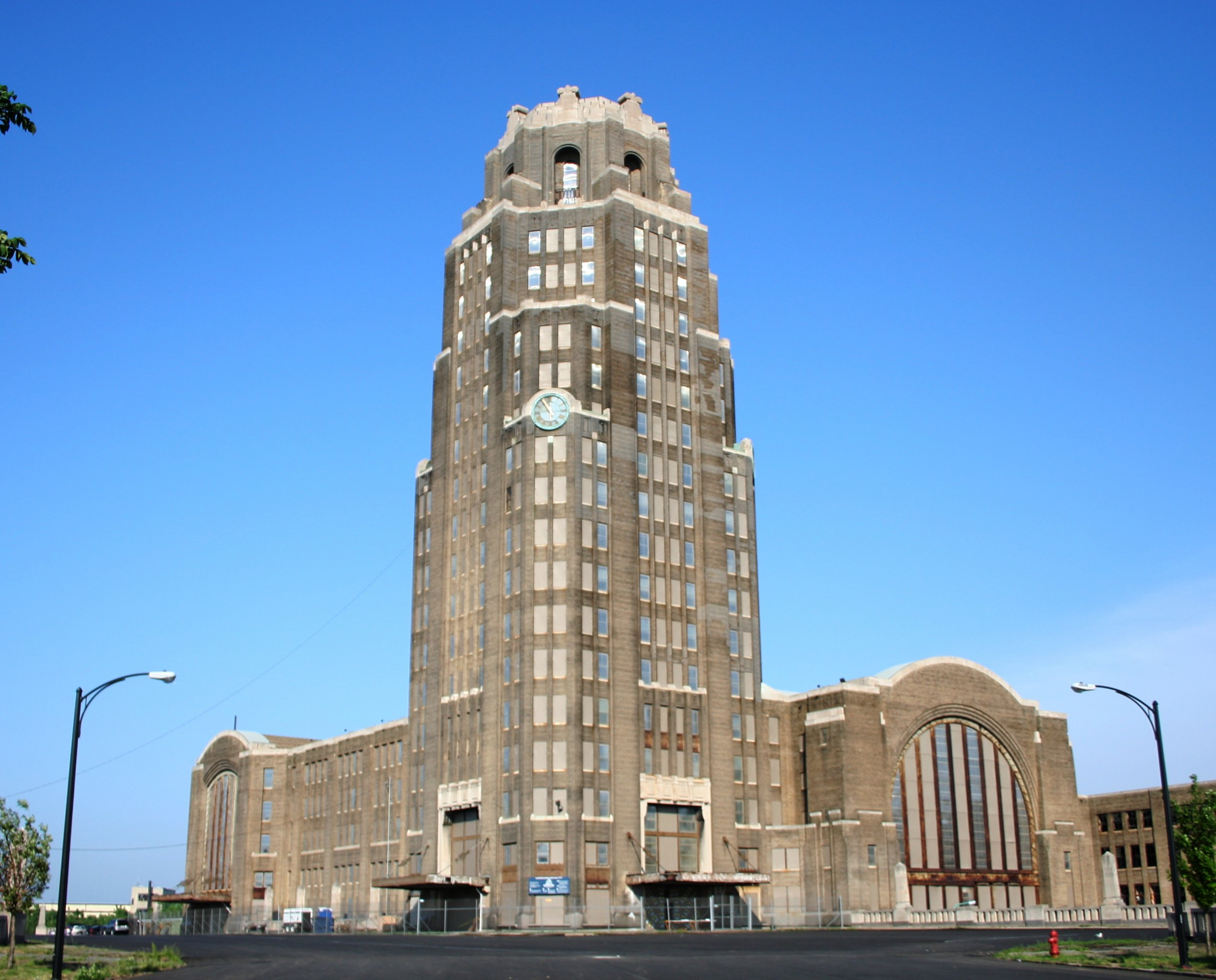 Buffalo Central Terminal, west side, viewed from the main approach up Paderewski Drive.